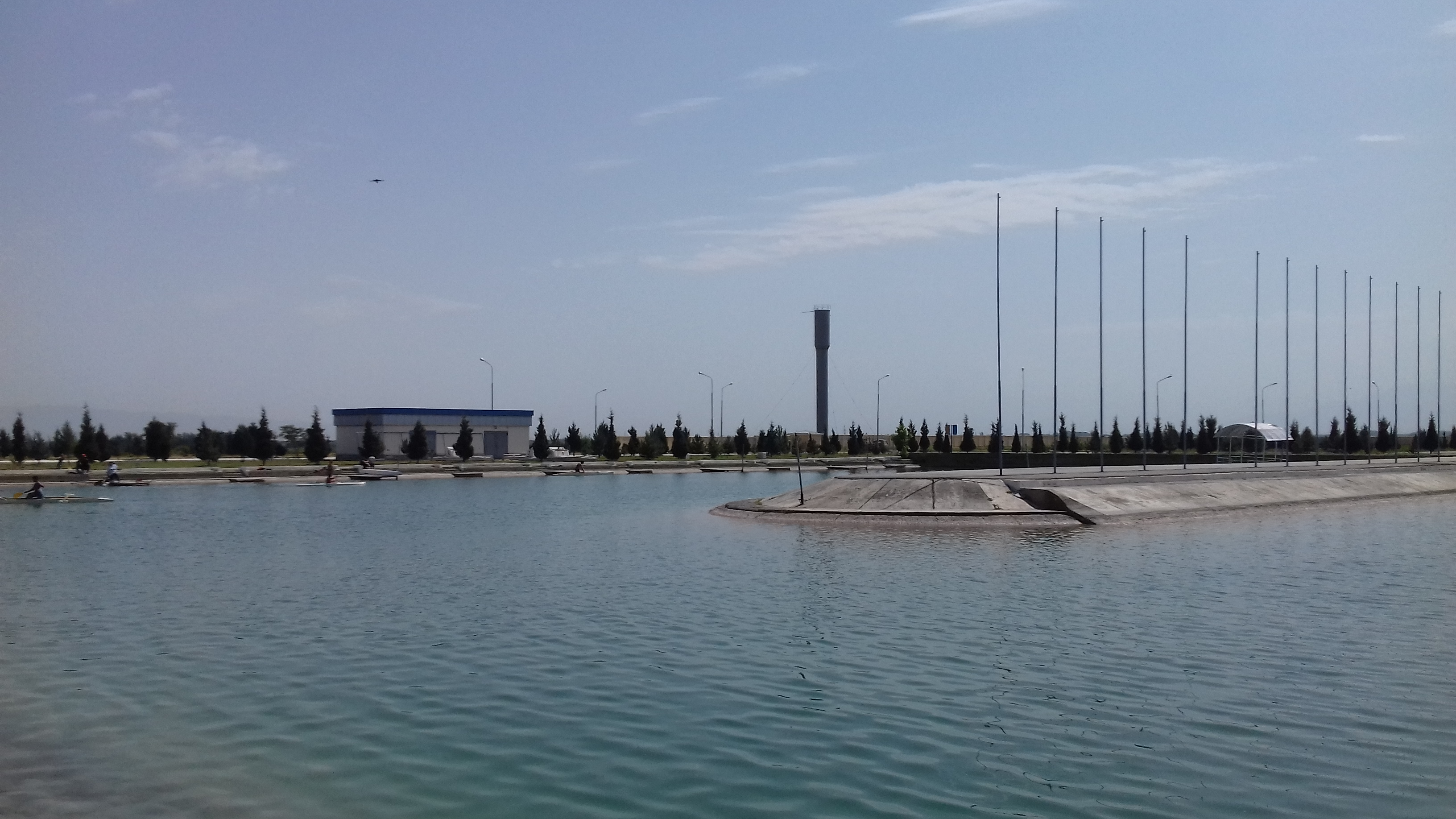 Samarkand Rowing Canal (Uzbekistan)